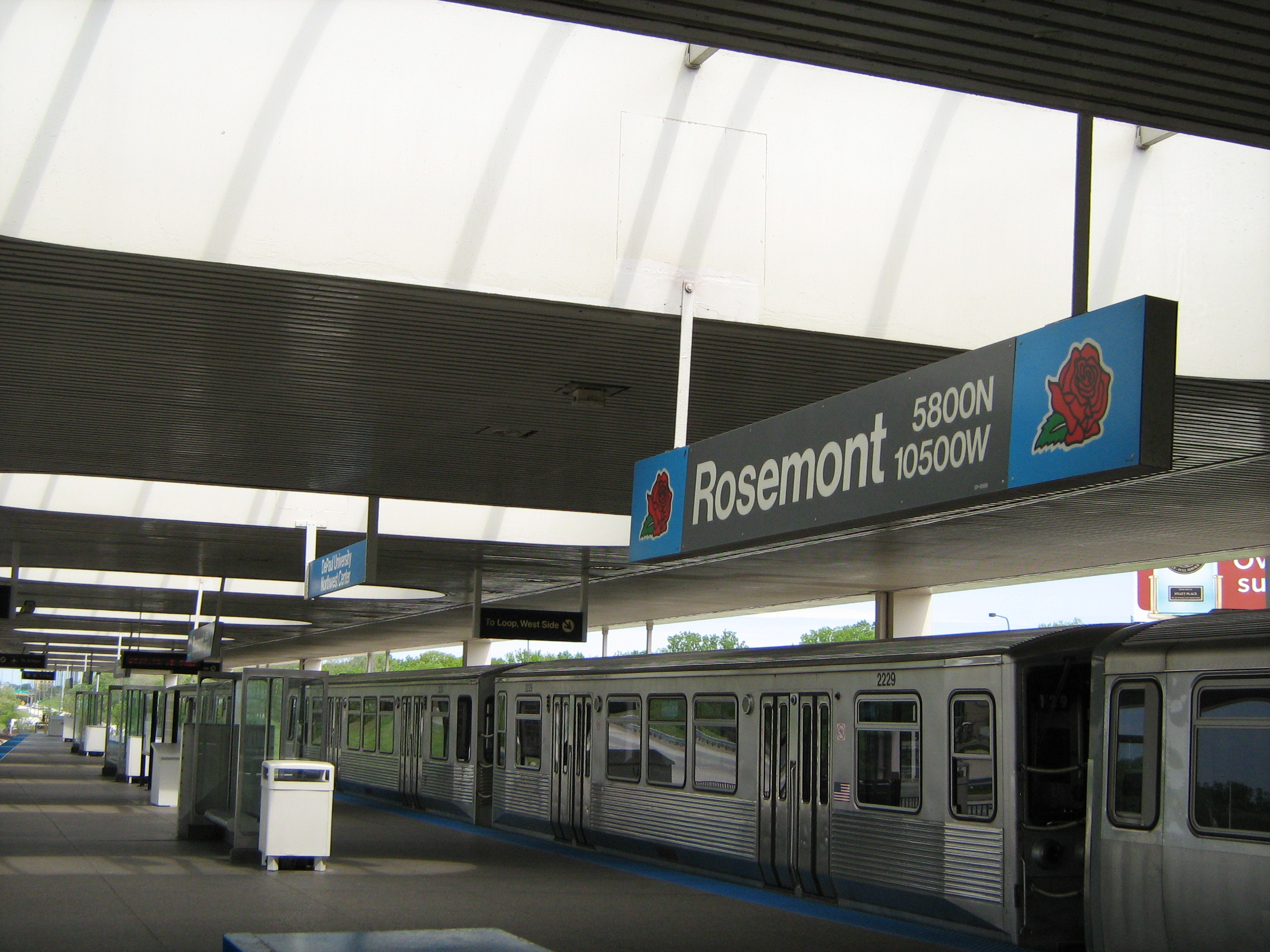 Rosemont CTA Station